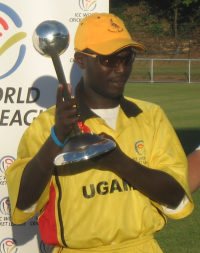 Photo of Joel Olweny, Captain of the Uganda Cricket team, taken by me at World Cricket League final in Darwin, 2 June 2007.